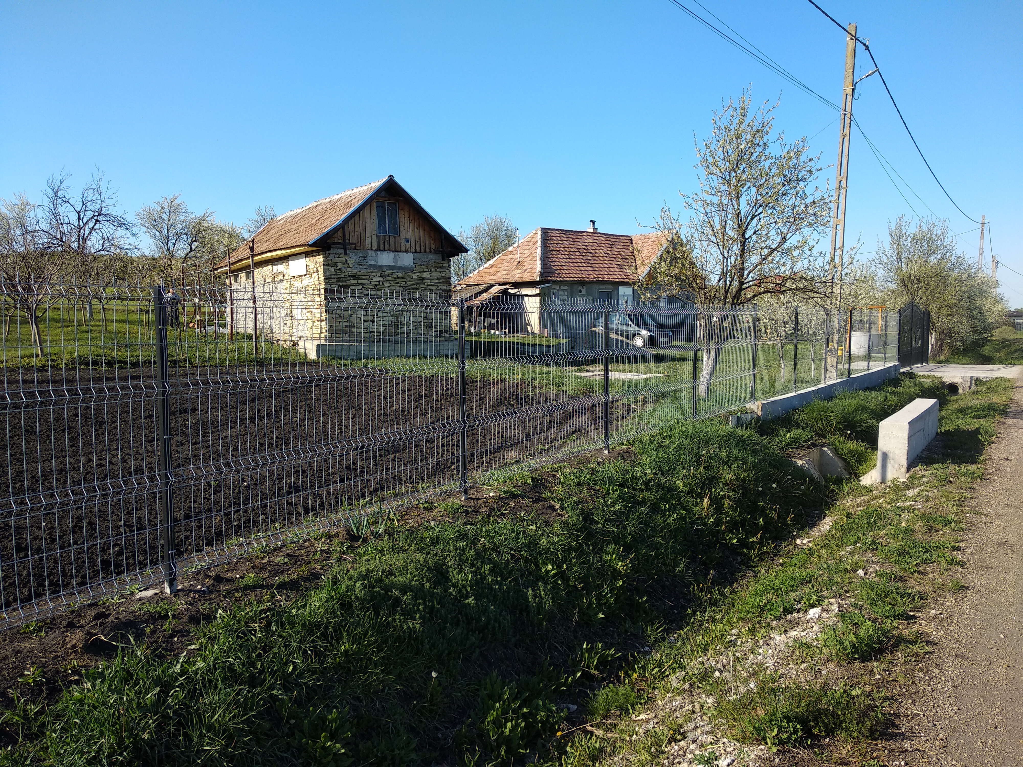 house